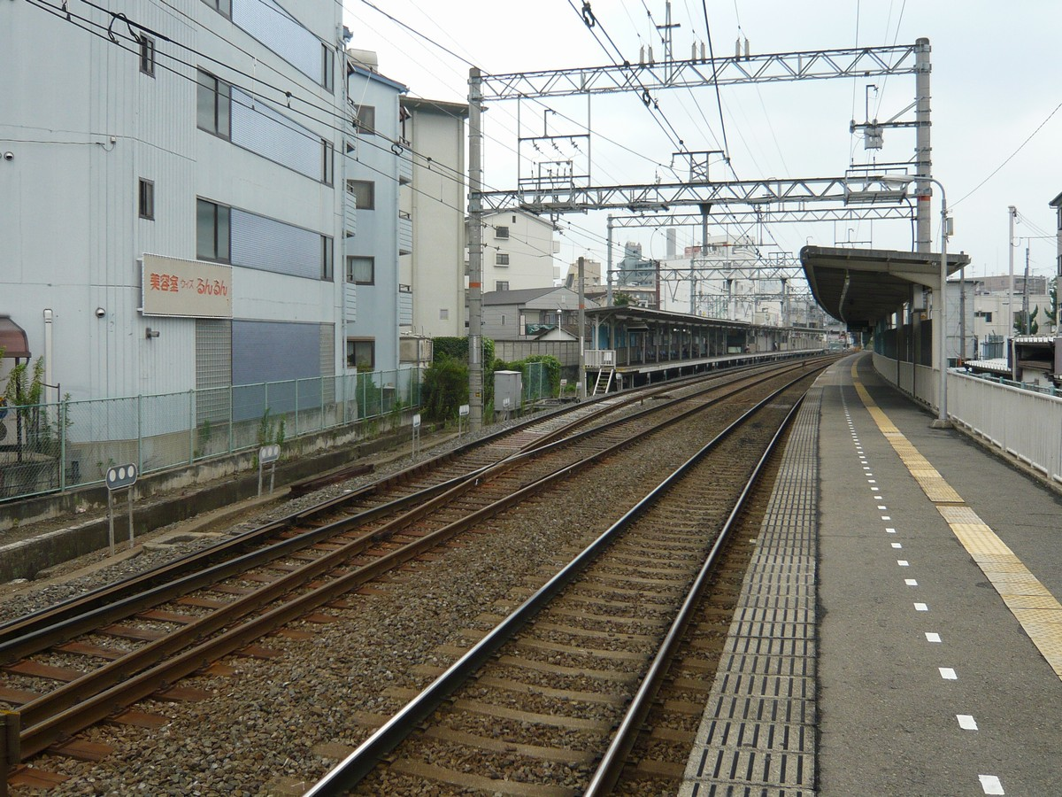 投稿者撮影（2007.08.03） Category:鉄道駅ホーム画像